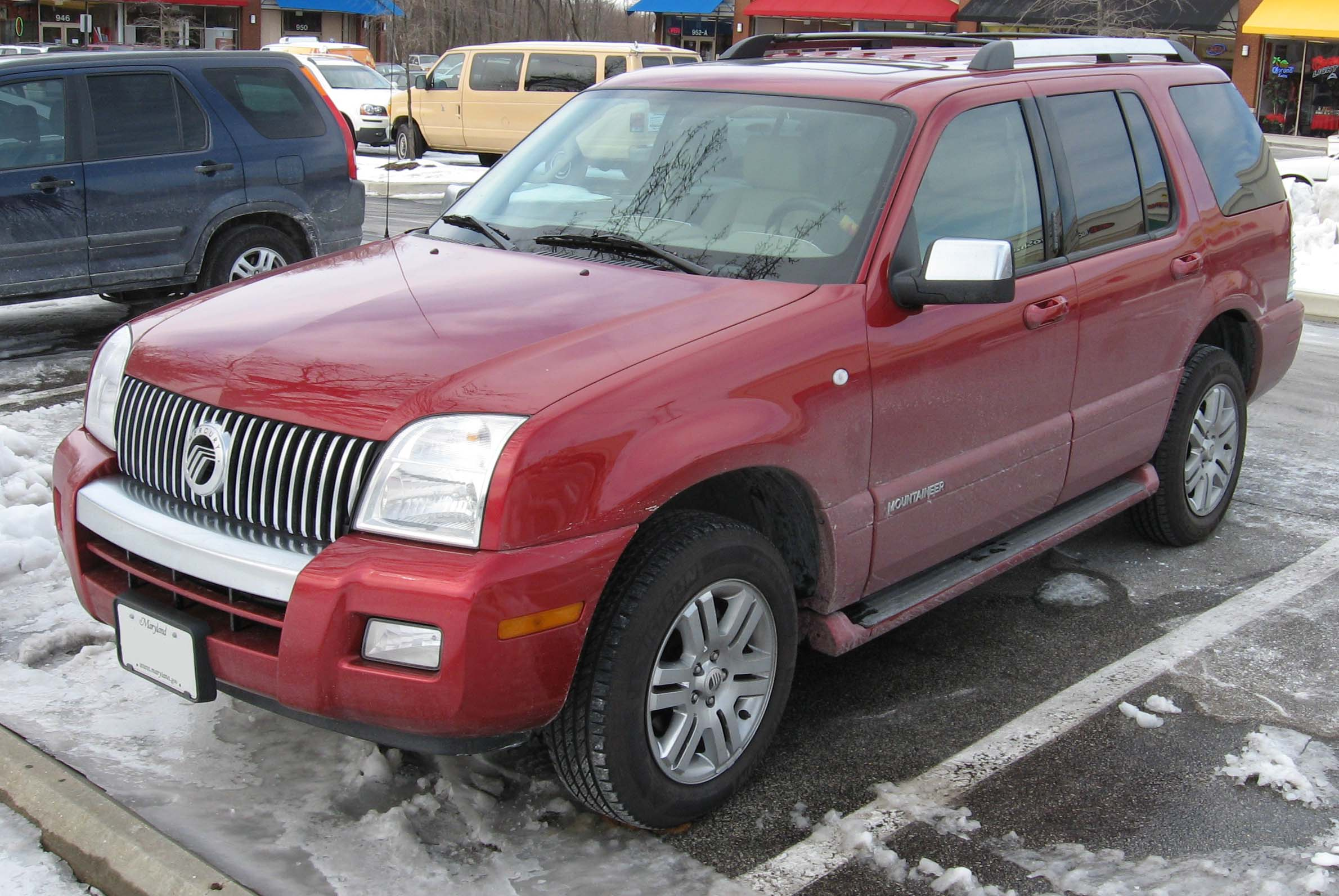 2006-2007 Mercury Mountaineer photographed in USA.